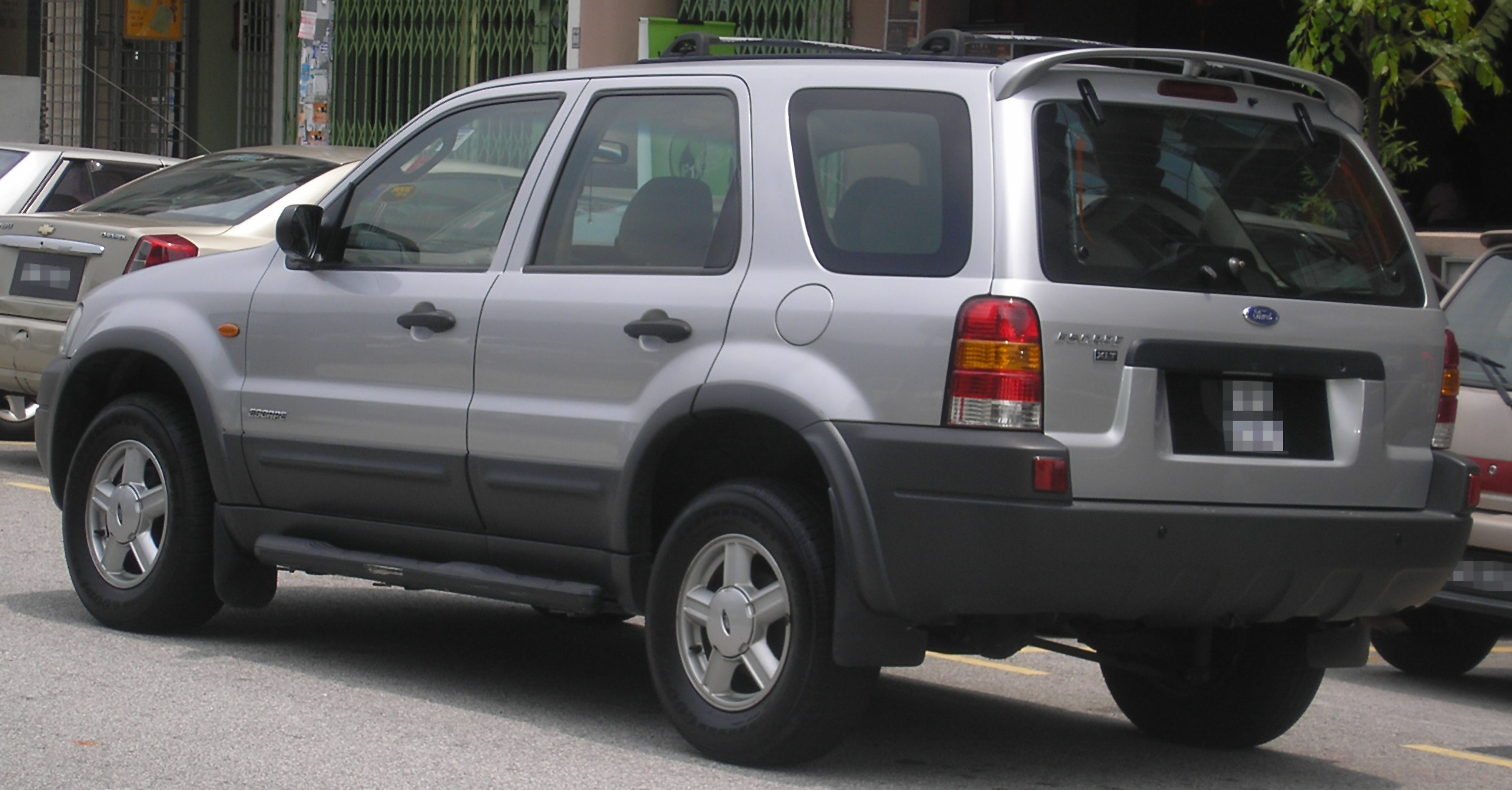 Rear quarter view of a first generation Ford Escape, in Serdang, Selangor, Malaysia.